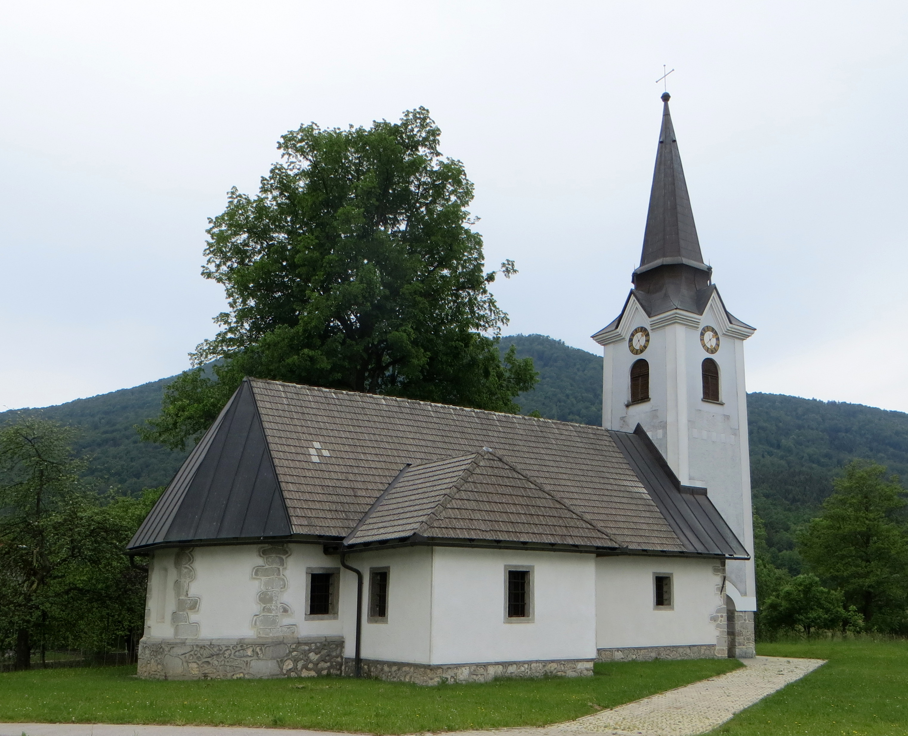 All Saints Church in Livold, Municipality of Kočevje, Slovenia